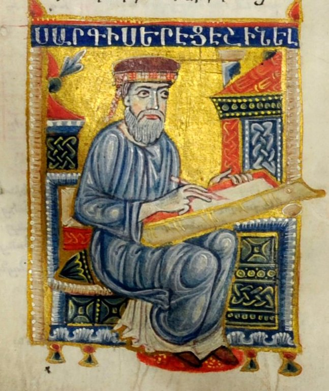 Sargis Pitsak, self portrait